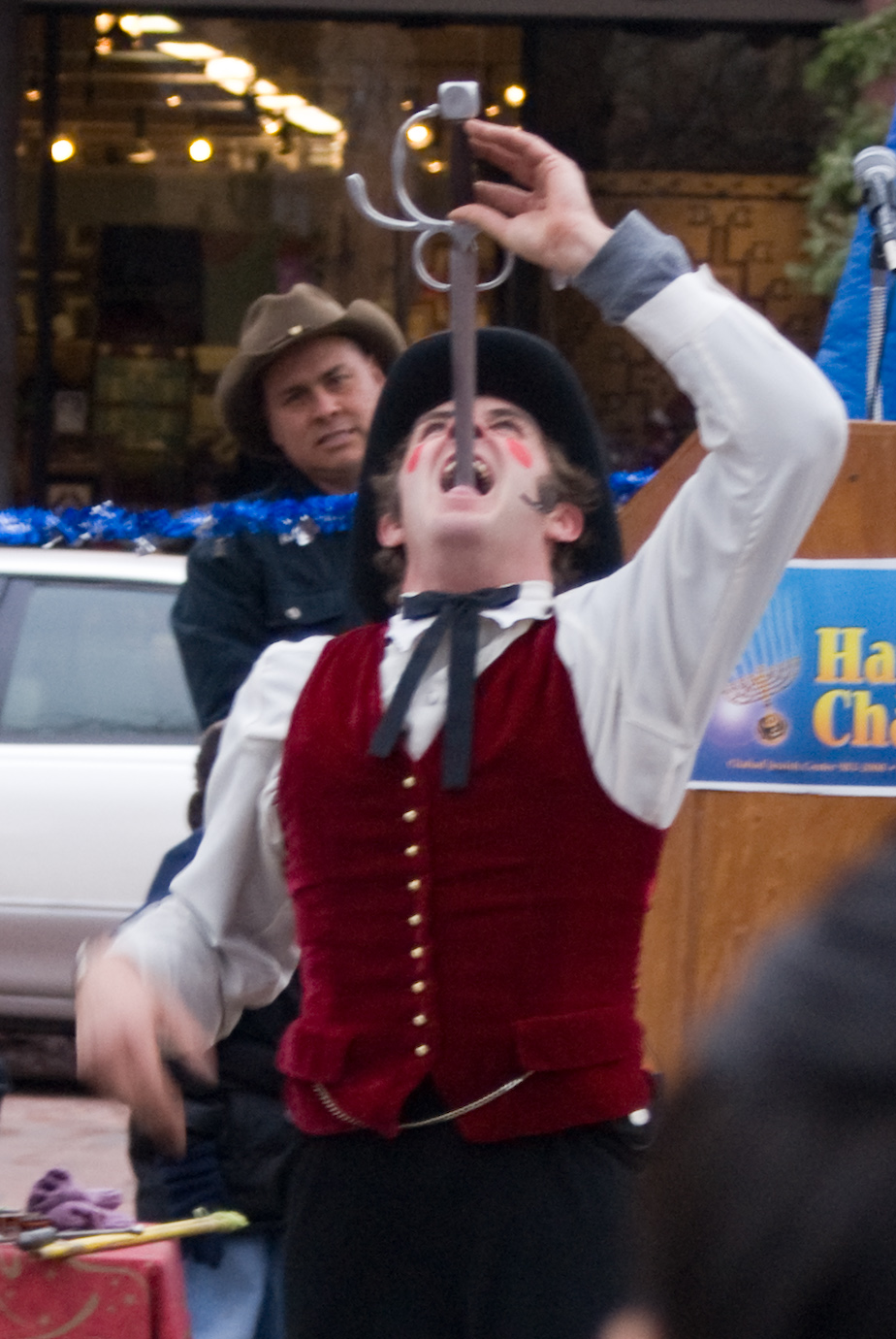 As part of the celebrations for the first day of Hanukkah in Santa Fe, NM, there were some street performers swallowing swords and juggling fire.